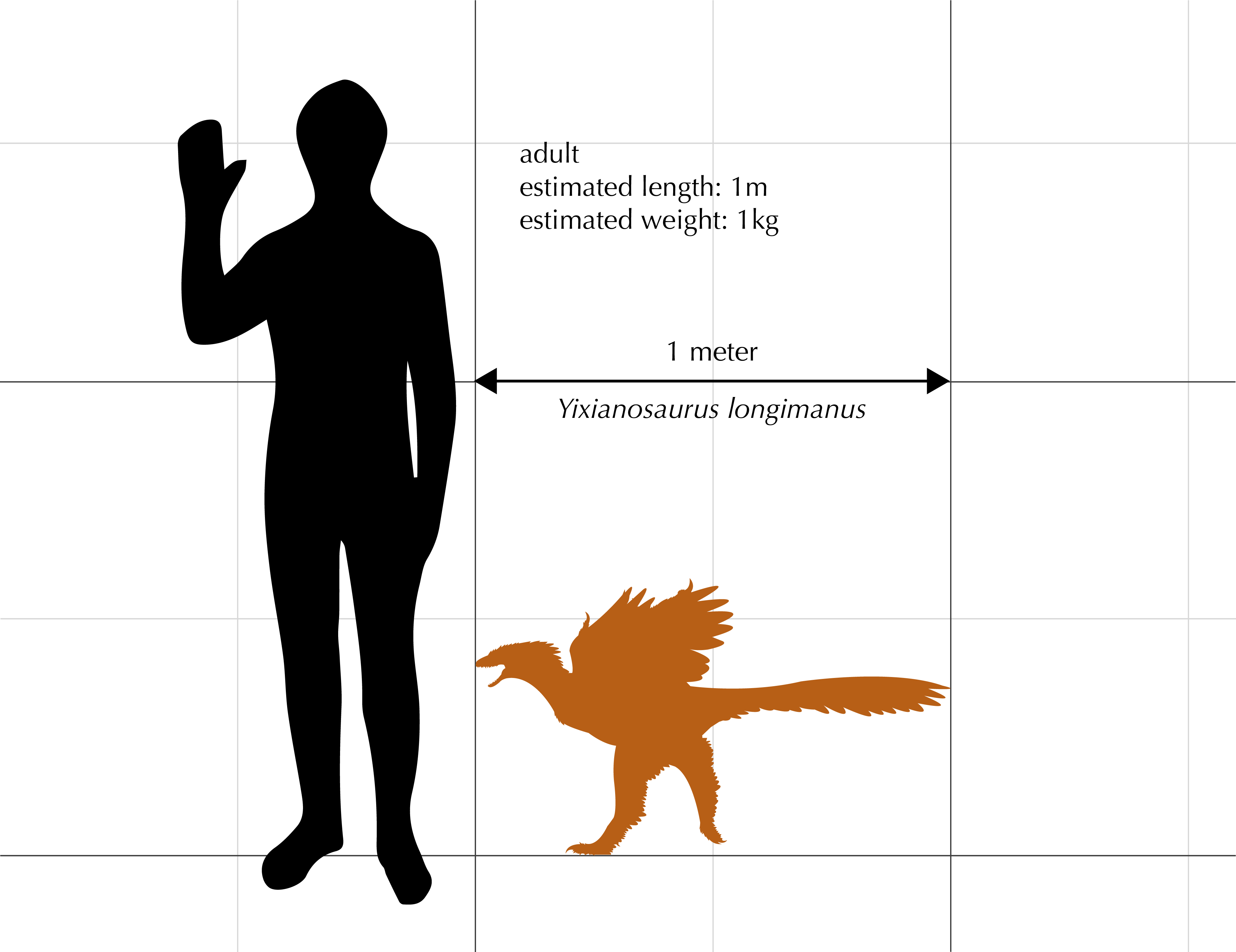 A size comparison between a human male and a Yixianosaurus longimanus specimen (size estimates by Paul, G.S., 2010).